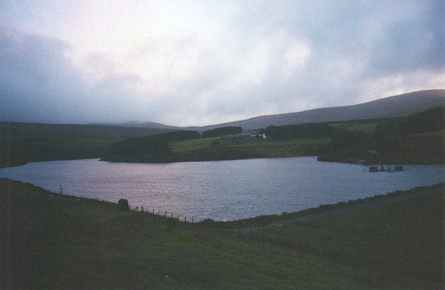 Dusk at Sulby Reservoir Looking south-west on a misty evening.